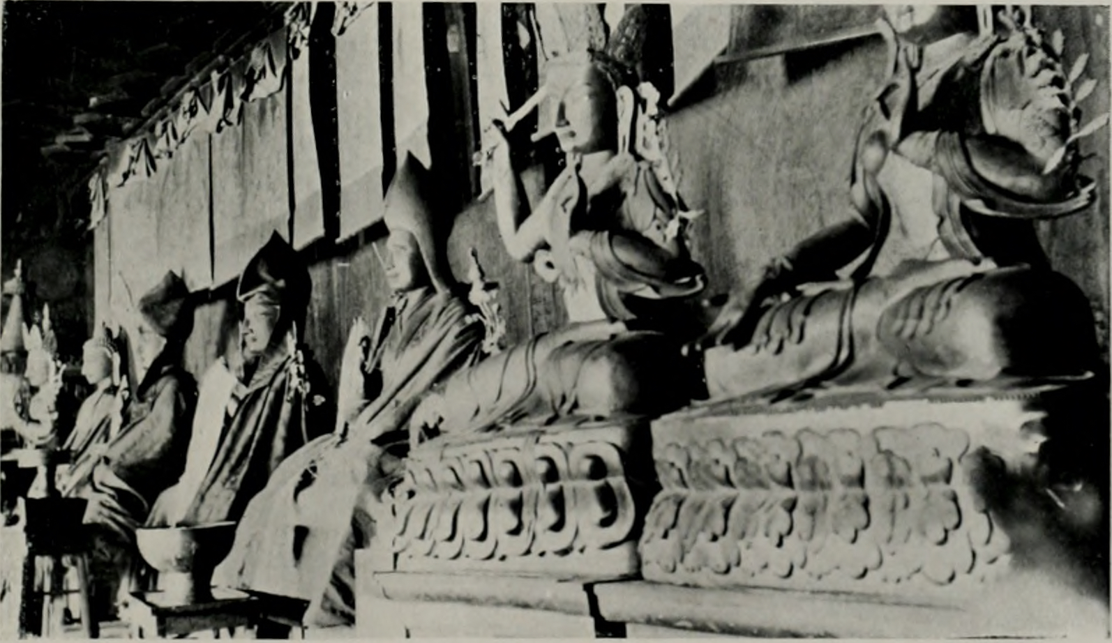 Buddhas in Pelkor Chode Monastery at Gyantse, Tibet. Photo taken during Younghusband expedition to Tibet.